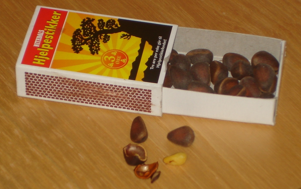 Seeds from Pinus sibirica (syn. Pinus cembra var. sibirica) in a matchbox, in front one peeled. In Norway called Russenøtter